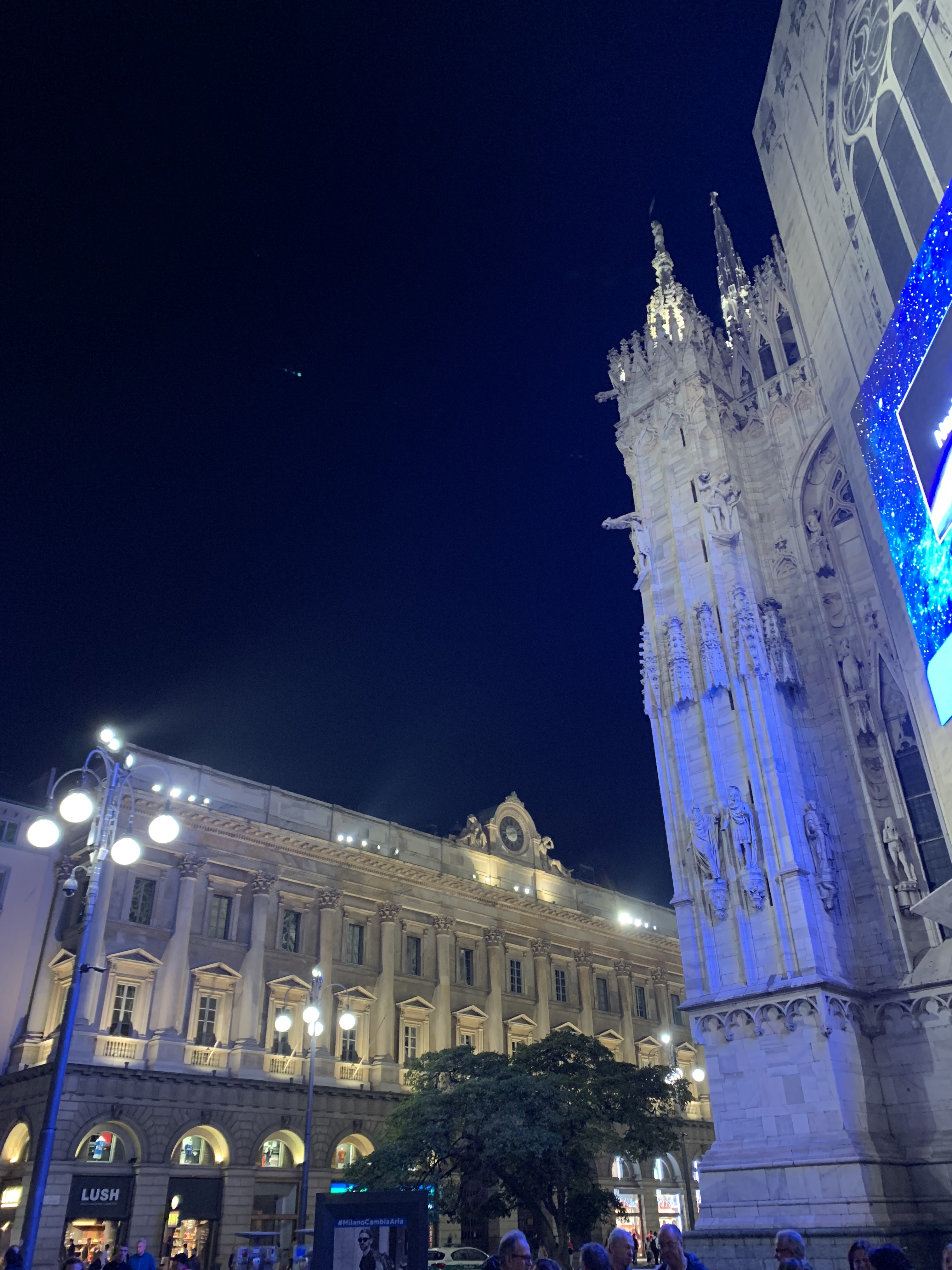 A grand building with ornate facade, and Corinthian columns, located directly to the rear of Milan cathedral. Night time scene, illuminated by street lamps and building illuminations.